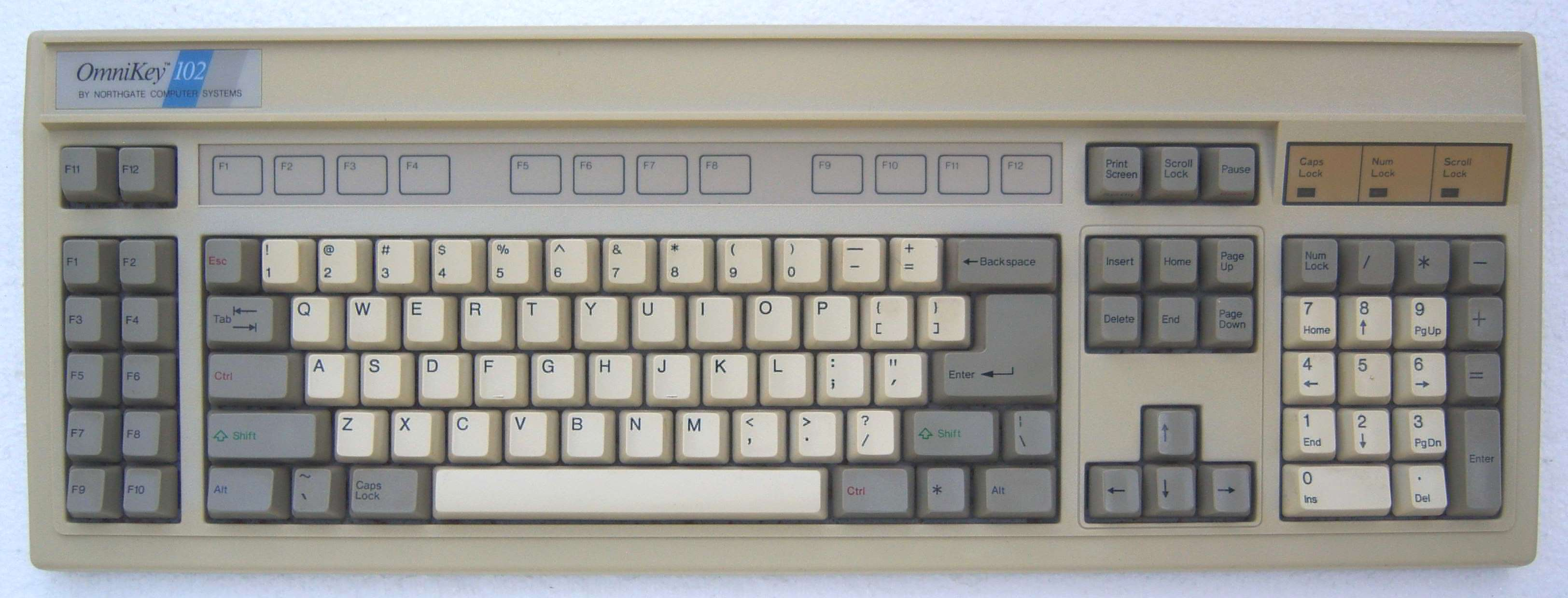 Original Northgate OmniKey 102 keyboard (3248px wide)